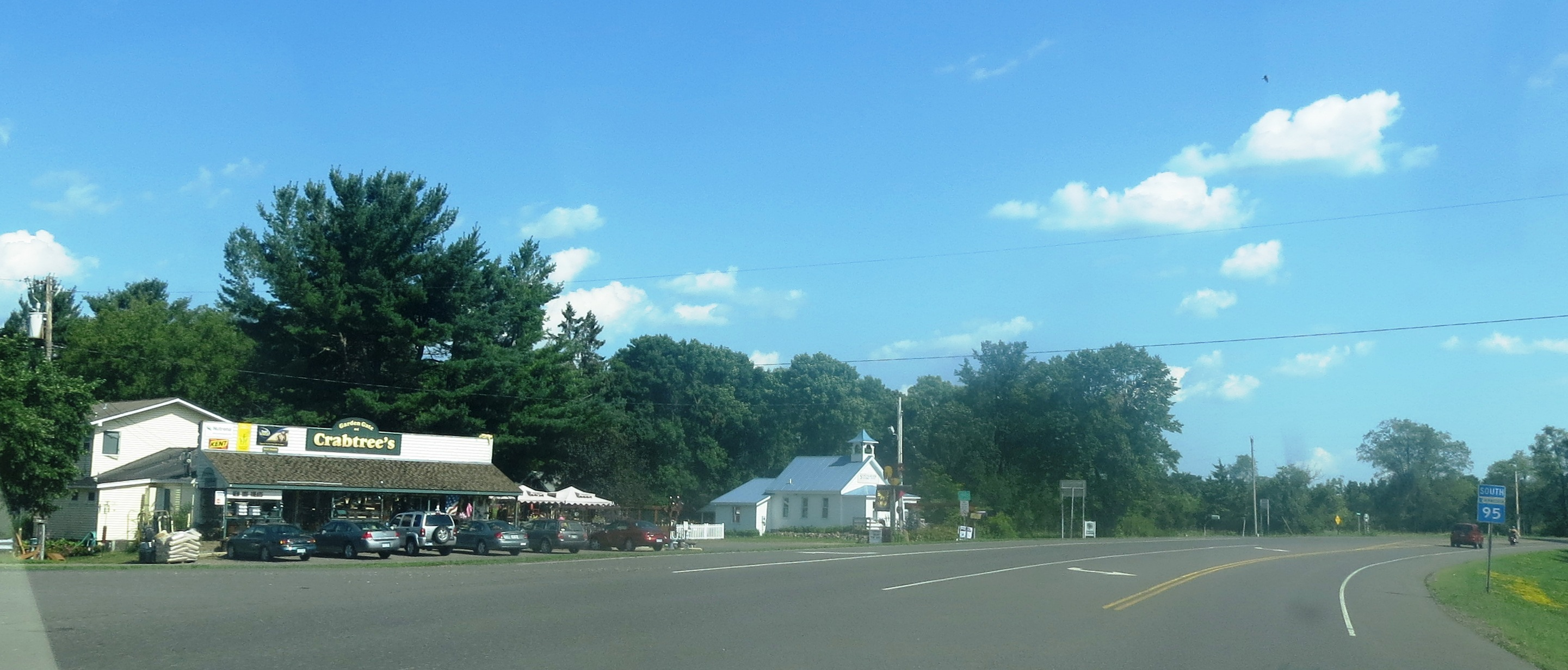 Image from the county of Washington, eastern Minnesota. USA.